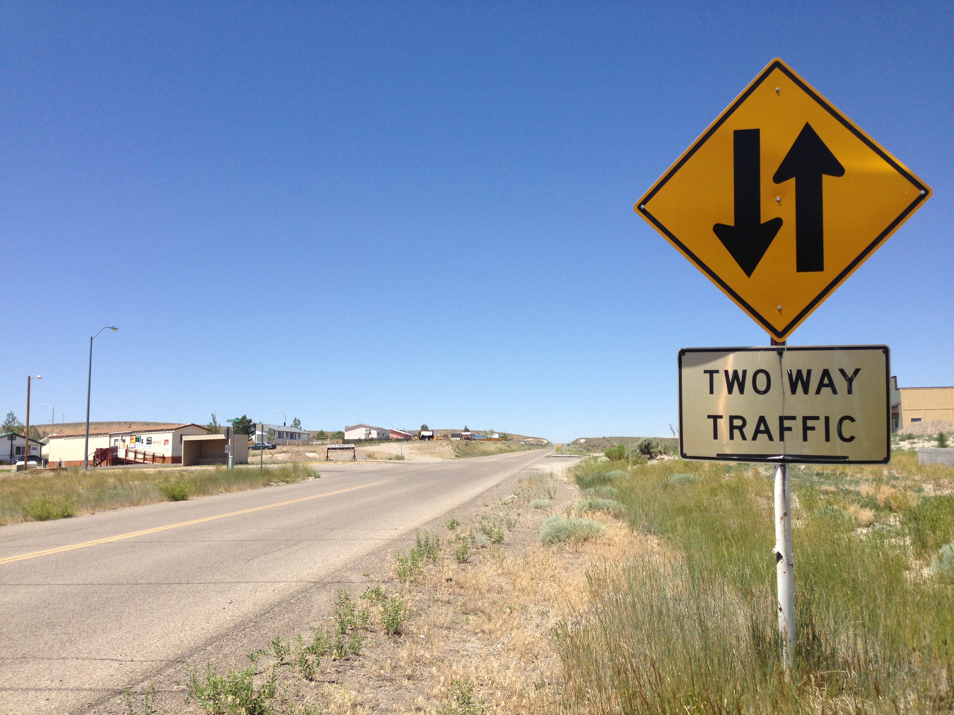 View west along old U.S. Route 40 just west of Wells, Nevada